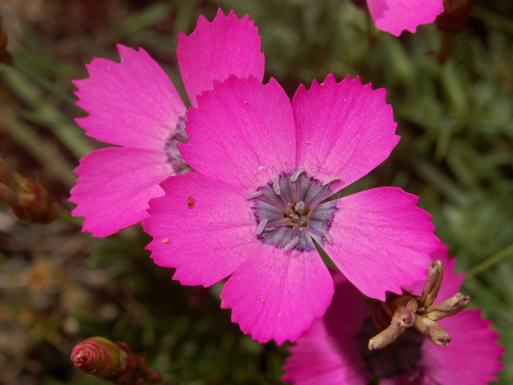 Dianthus pavonius - Piani di Praglia, Genova, Italy